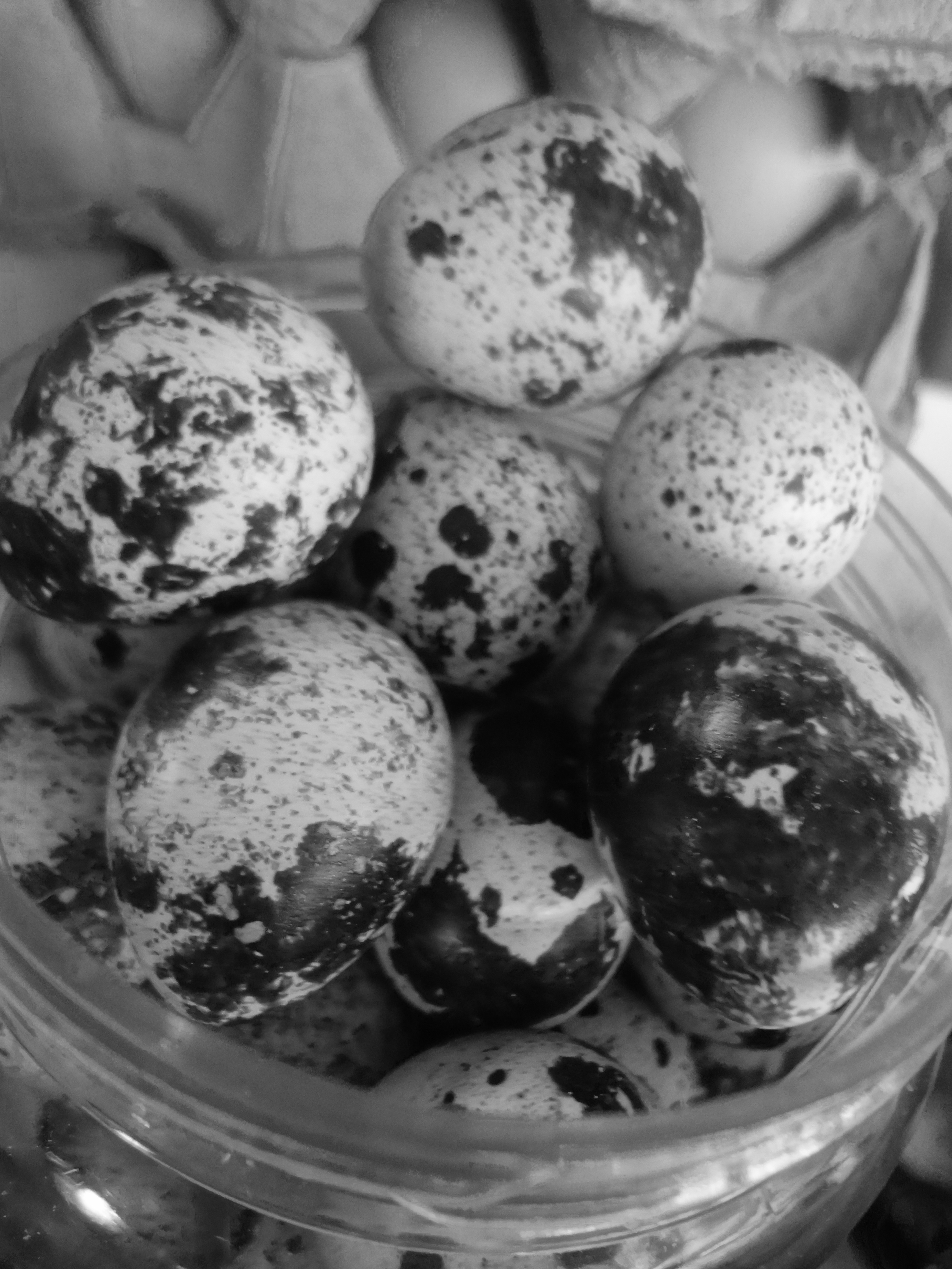 Quail eggs in Quito Photography by David Adam Kess